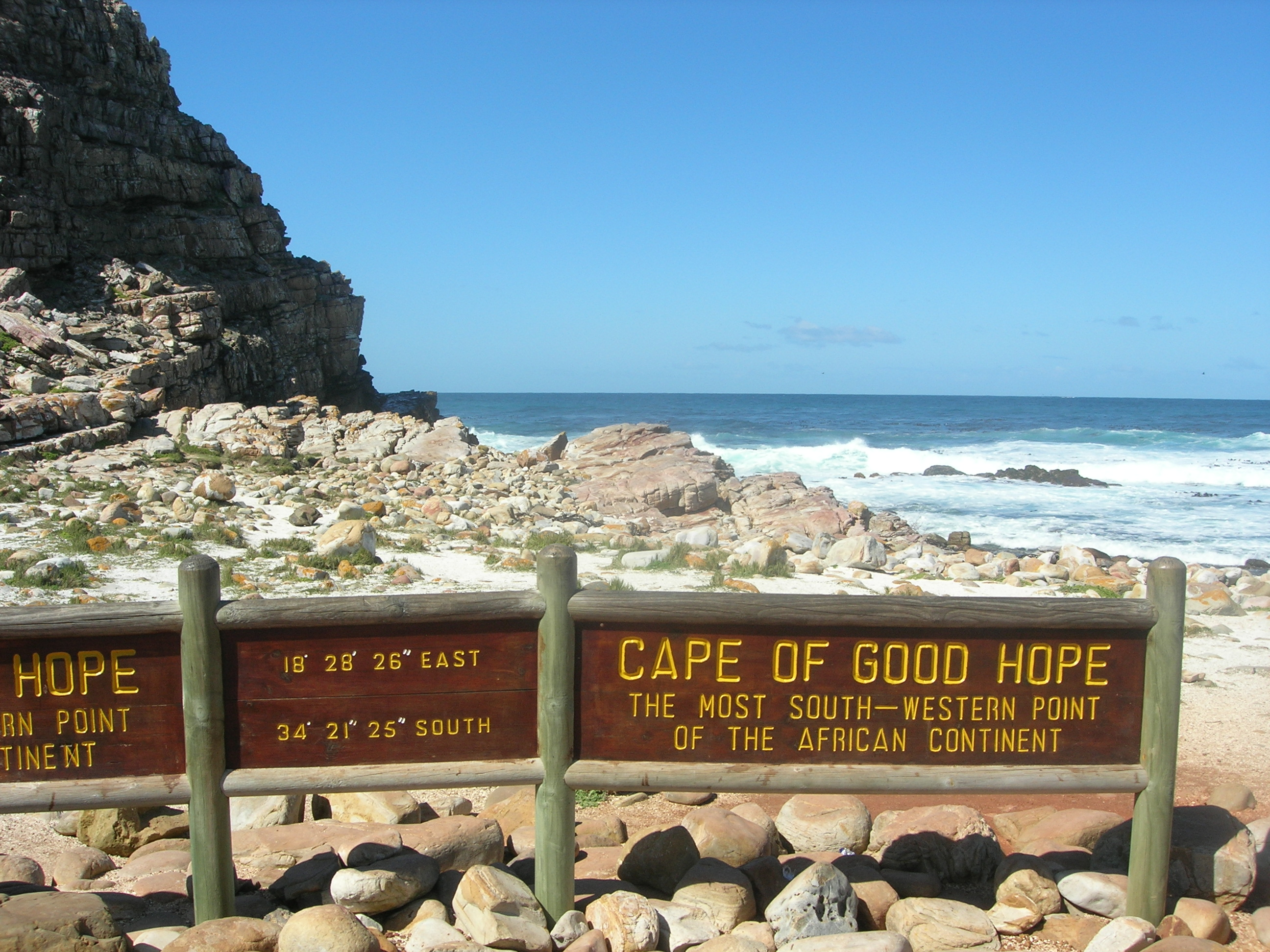 Cape of good hope. This photo has been taken by Mr.Chen Hualin.